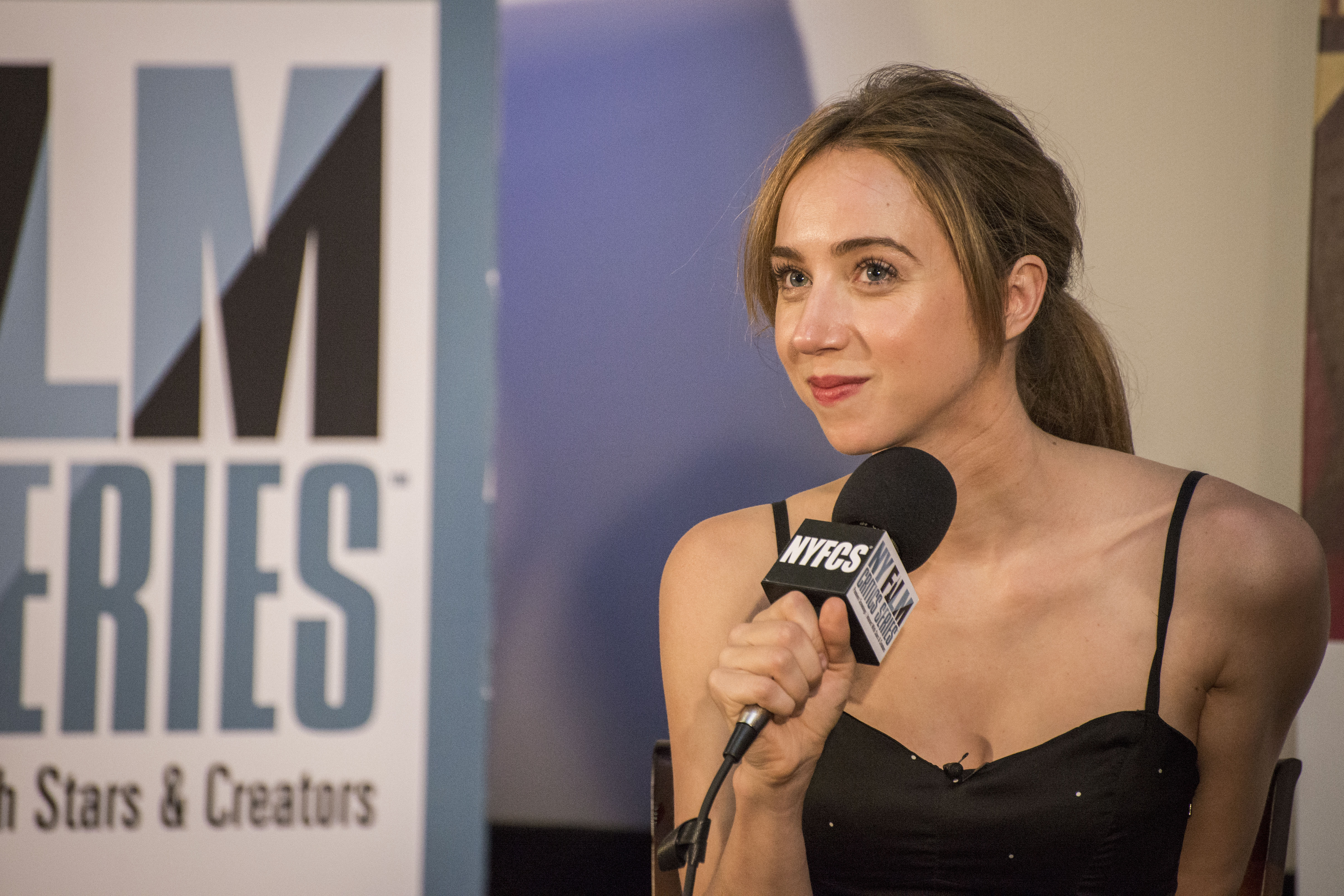 Zoe Kazan at the New York Film Critic Series screening of "What If"